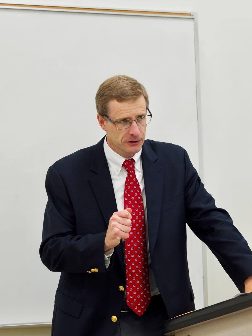 Photo of David Vandrunen speaking.